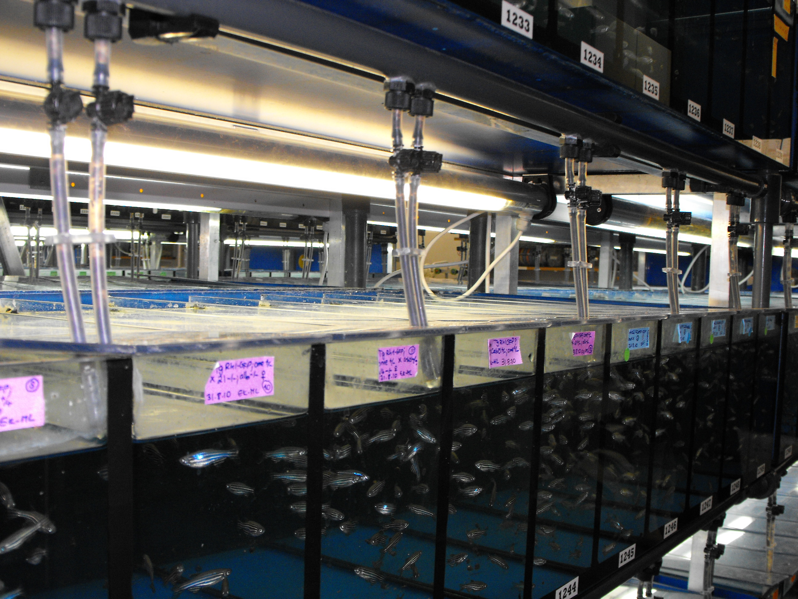 Danio rerio aquarias - breeding for scientific purposes.